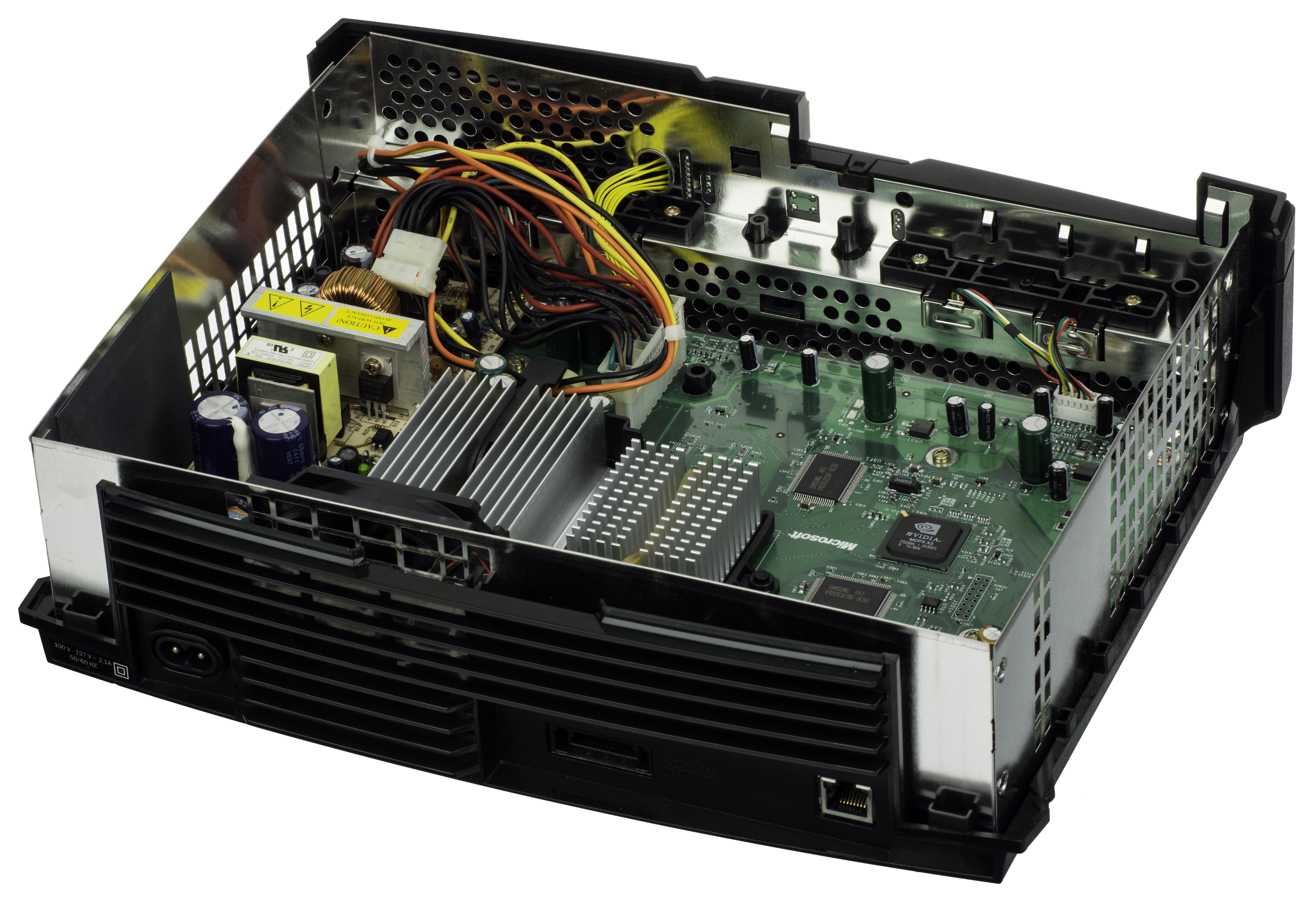 The inside of an Xbox, a sixth-generation gaming console made by Microsoft that was first released in 2001. The Xbox was Microsoft's first foray into the gaming console market, and was followed by the Xbox 360 in 2005. This picture shows the inside of console with the DVD and hard drives removed. The console shown is the 1.6 hardware revision, which was the last version of the console hardware that featured component reduction and streamlining. Manufacture date of the console is 2004-11-18, making this one of the last Xbox consoles made.